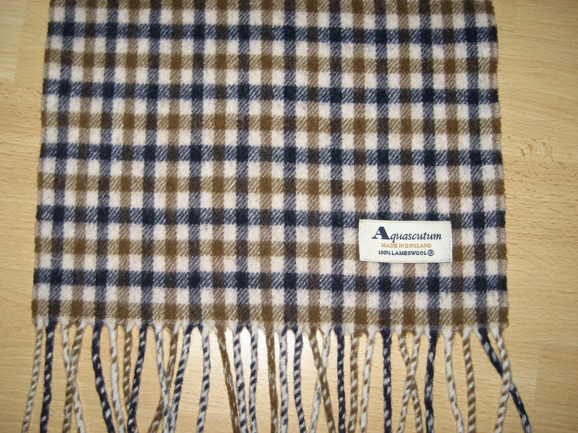 Aquascutum Club Check scarf. Made by Goose.